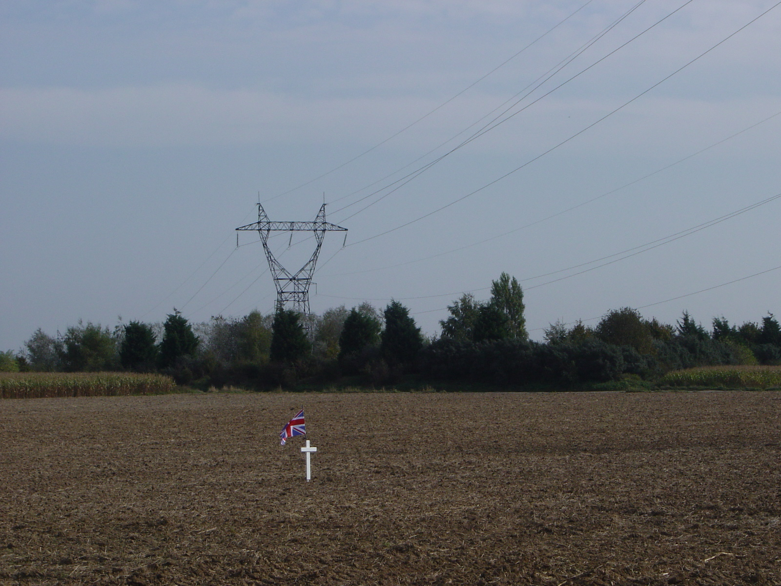 Photograph of the the World War I Hohenzollern Redoubt today: The Union Jack is located in what was the middle of No-Mans Land. The electricity pylon stands on the location of the Redoubt itself.